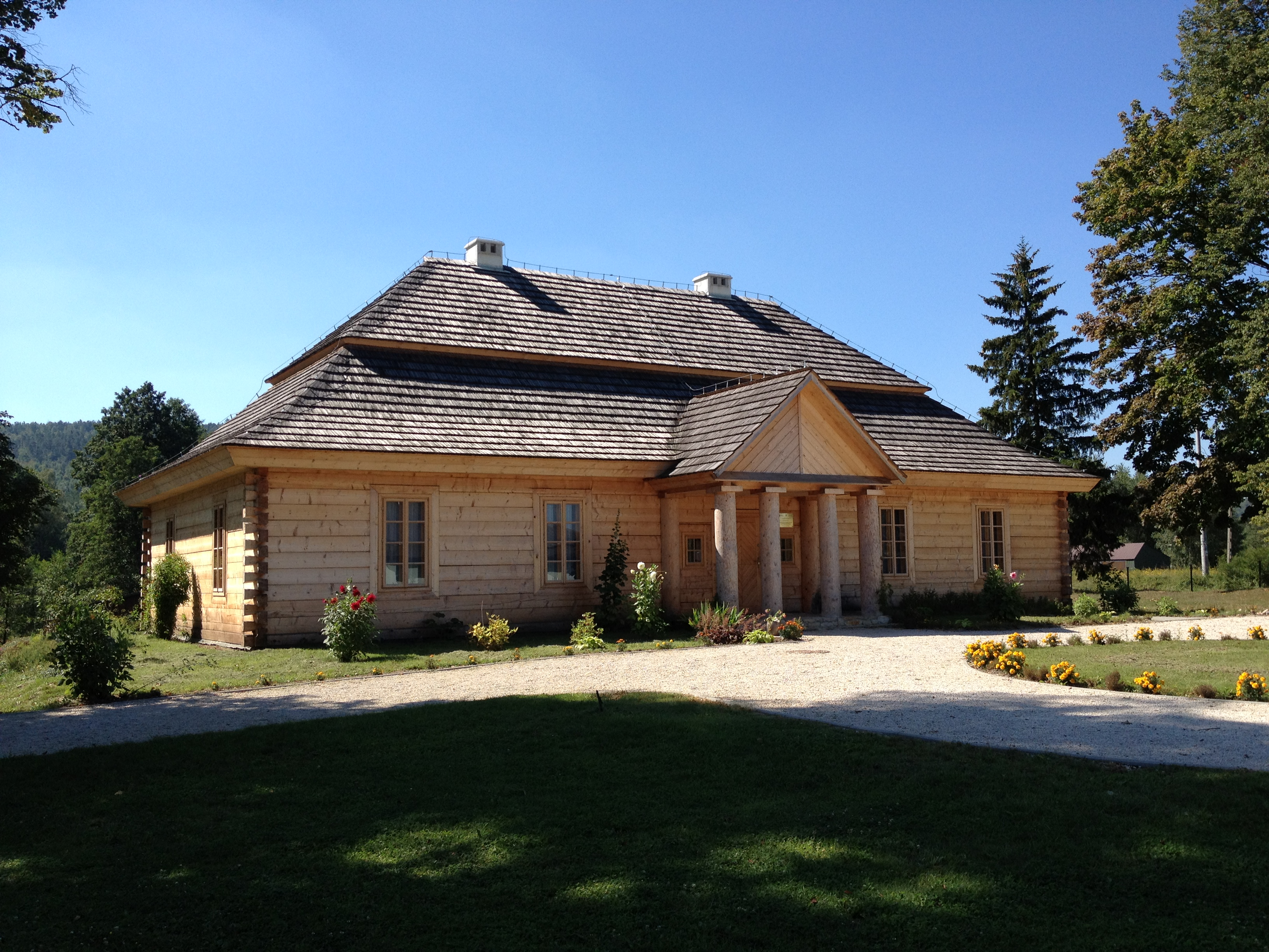 Stefan Żeromski family residence in Ciekoty, Poland. Reconstruction from 2011